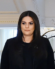 Azerbaijani President Ilham Aliyev with Turkish Minister of Labour and Social Security Jülide Sarıeroğlu and her delegation, Baku, Azerbaijan.